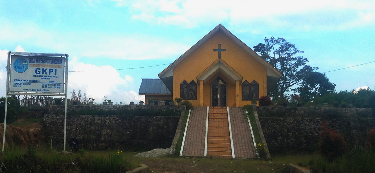 GKPI Merek, Res. Berastagi, Church in Merek, Karo